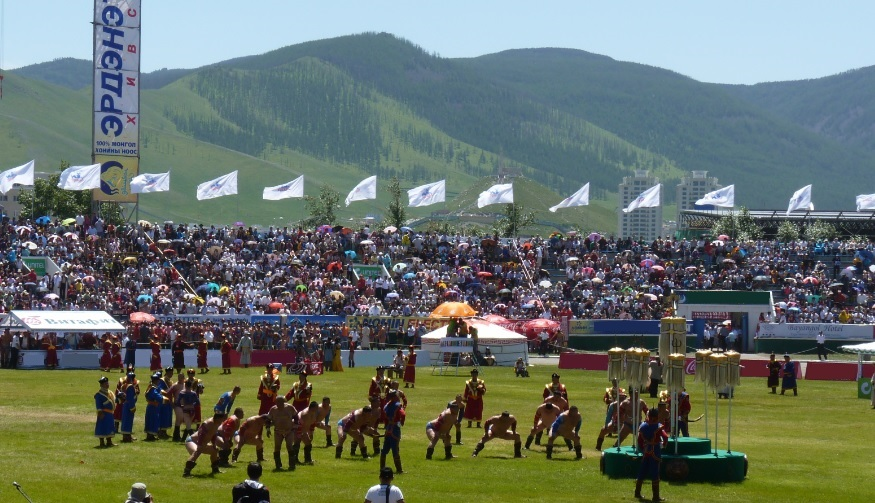 During Naadam Mongolian wrestlers posing for the match.